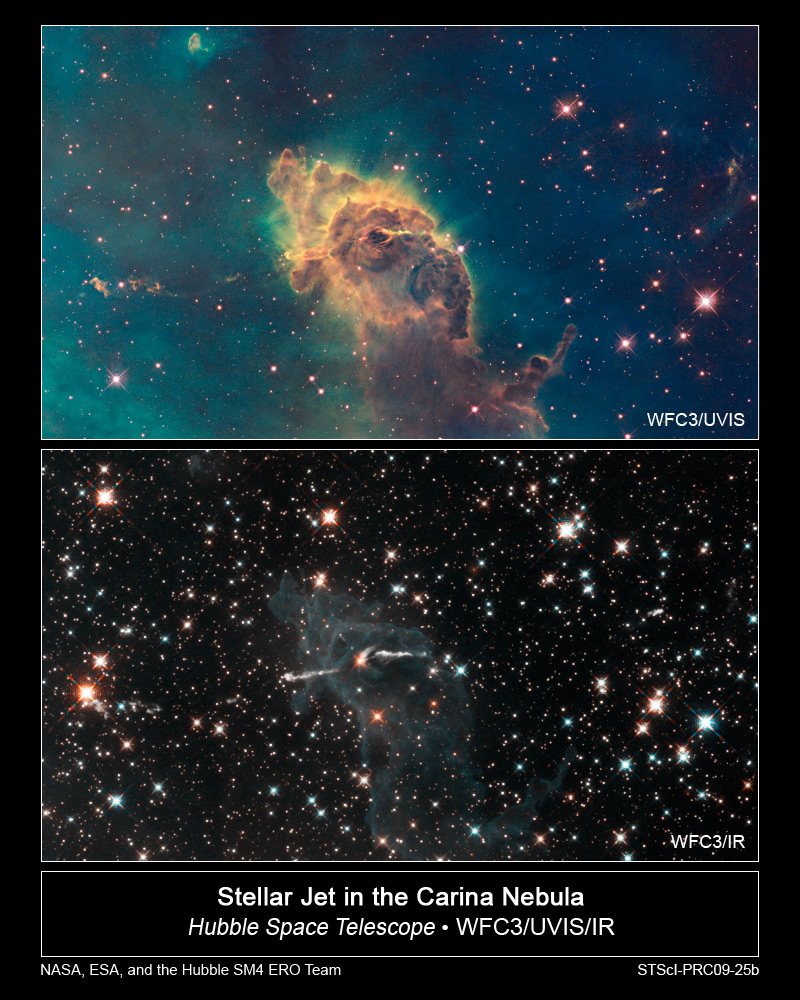 Two alternate Hubble Space Telescope views, comparing visible and infrared photography: Carina Nebula.